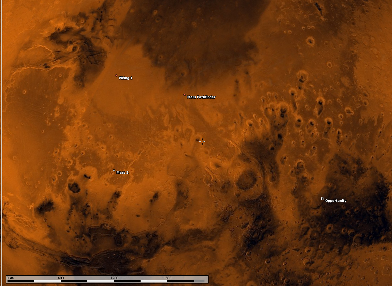 Map from the Marble program showing the locations of Viking 1, Mars 2, Mars Pathfinder and Opportunity. Uses the "Globe" projection of the planet. Scale bar at the bottom is in km. Uses public domain information and maps from NASA, details added by the Marble team.